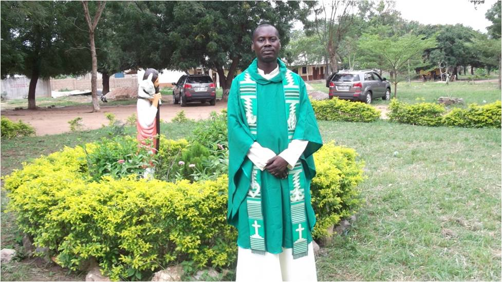 First Parochial Administrator St Sylvanus Catholic Church Pokuase